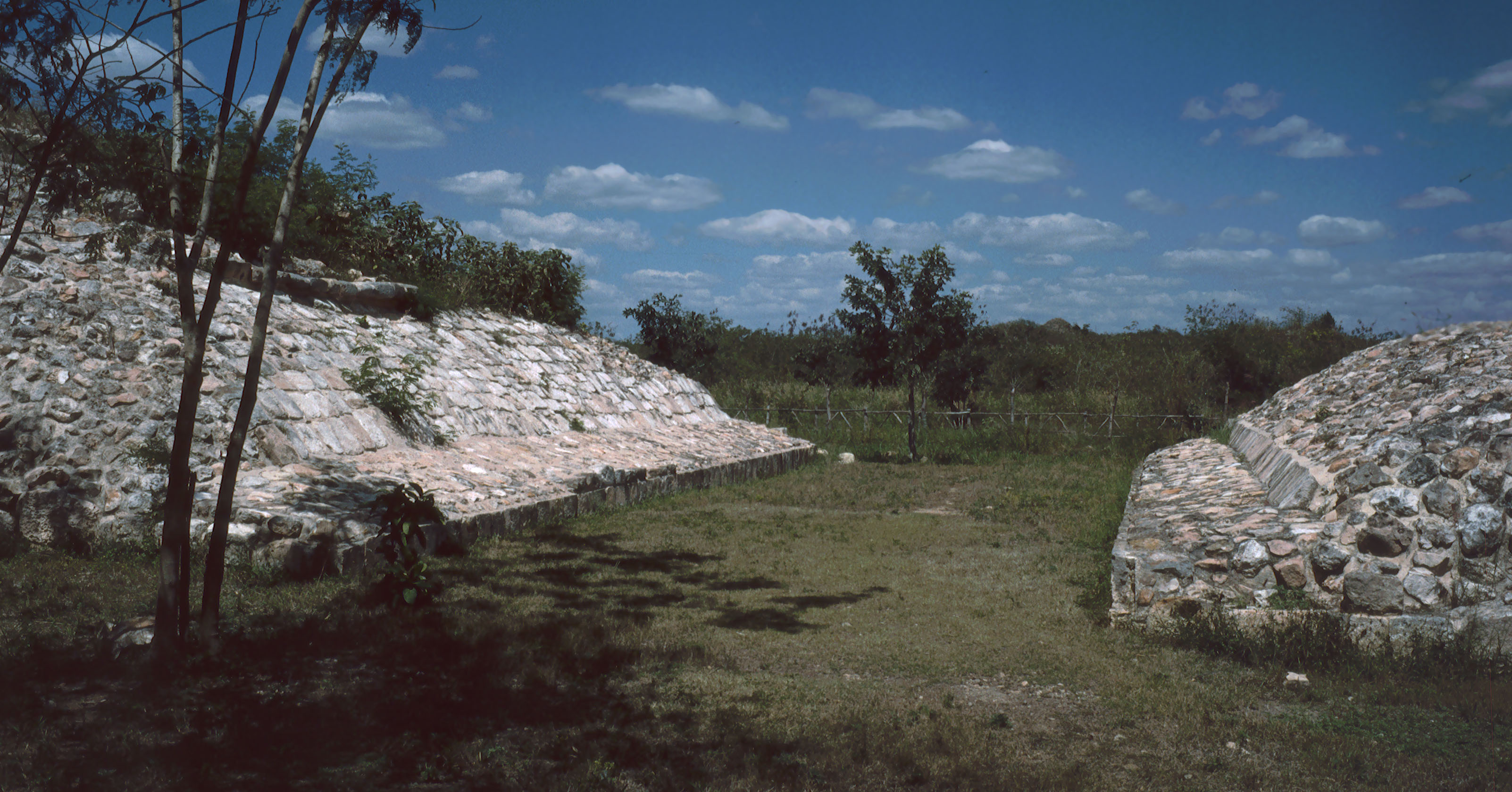 Oxkintoc, Yucatan, Mexico: ballcourt